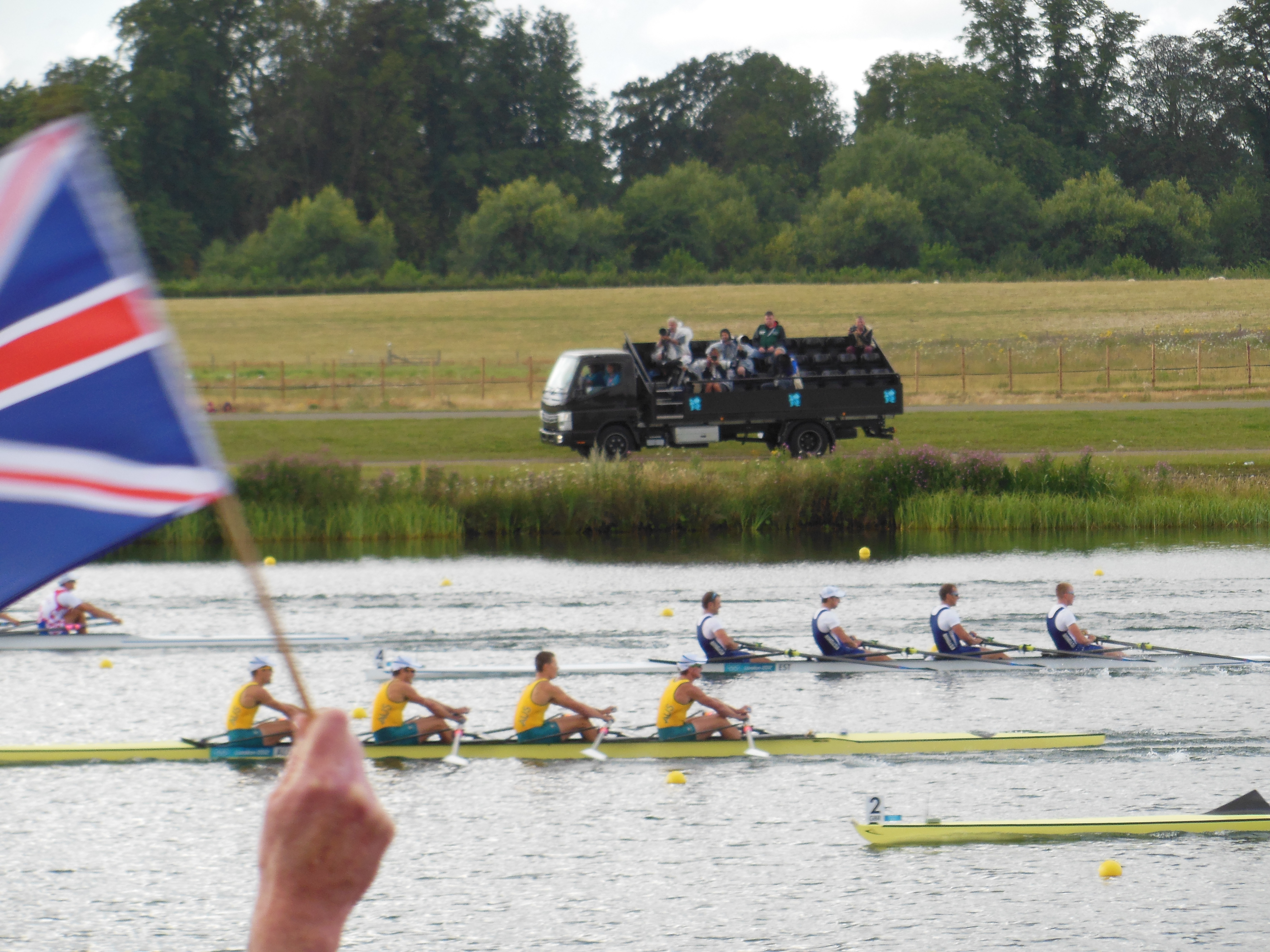 Schulze, Wende, Schoof, Grohmann Germany 5:42.48 02 ! Šain, Sinković, Martin, Sinković Croatia 5:44.78 03 ! Morgan, Forsterling, McRae, Noonan Australia 5:45.22 4 Jämsä, Raja, Endrekson, Taimsoo Estonia 5:46.96 5 Rowbotham, Cousins, Solesbury, Wells Great Britain 5:49.19 6 Wasielewski, Kolbowicz, Jeliński, Korol Poland 5:51.74